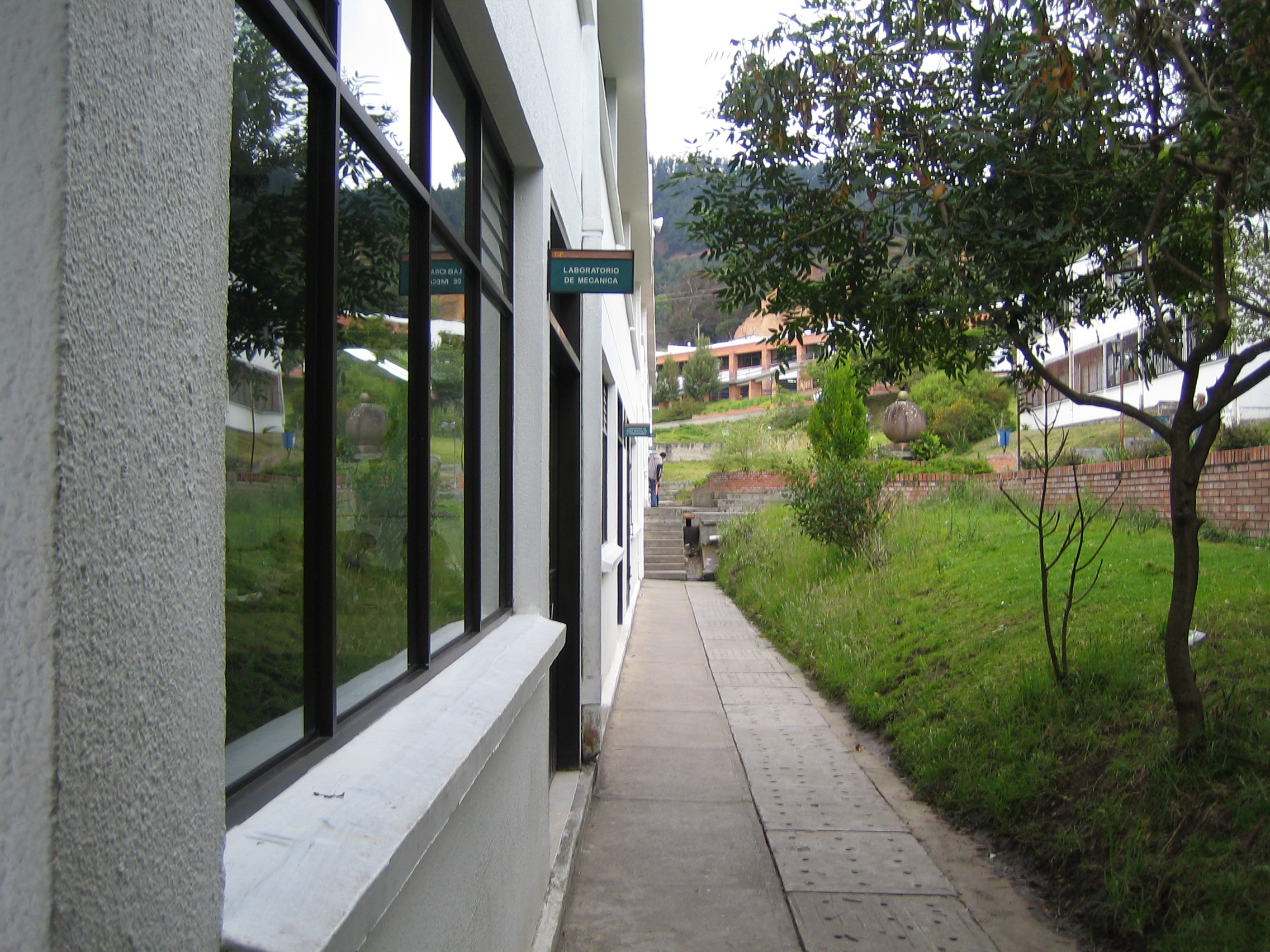 Laboratory of Mechanics - University of Pamplona - Pamplona, Norte de Santander - COLOMBIA